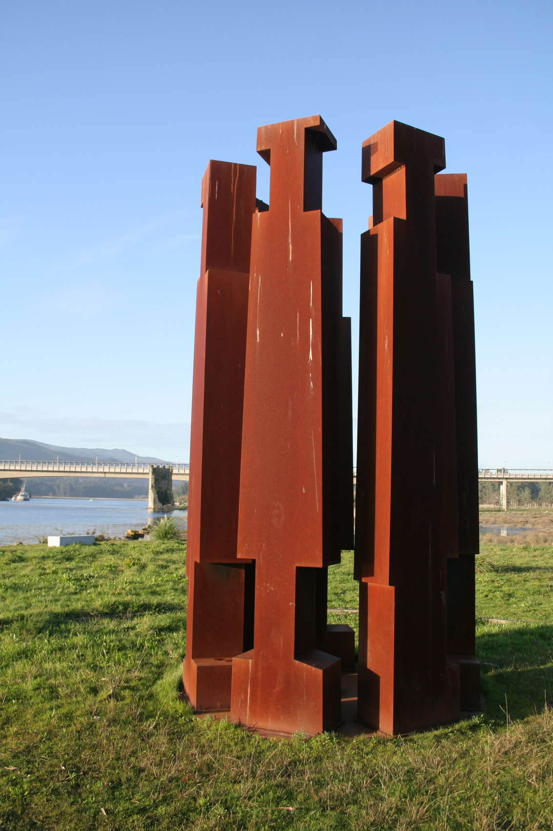 "Galicianos" (2011) by Xaquín Chaves.